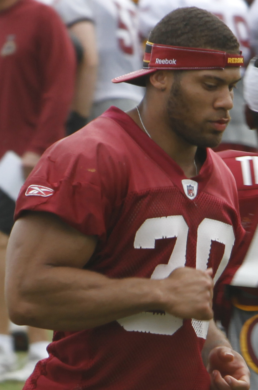 LaRon Landry at Washington Redskins Training Camp August 15, 2011